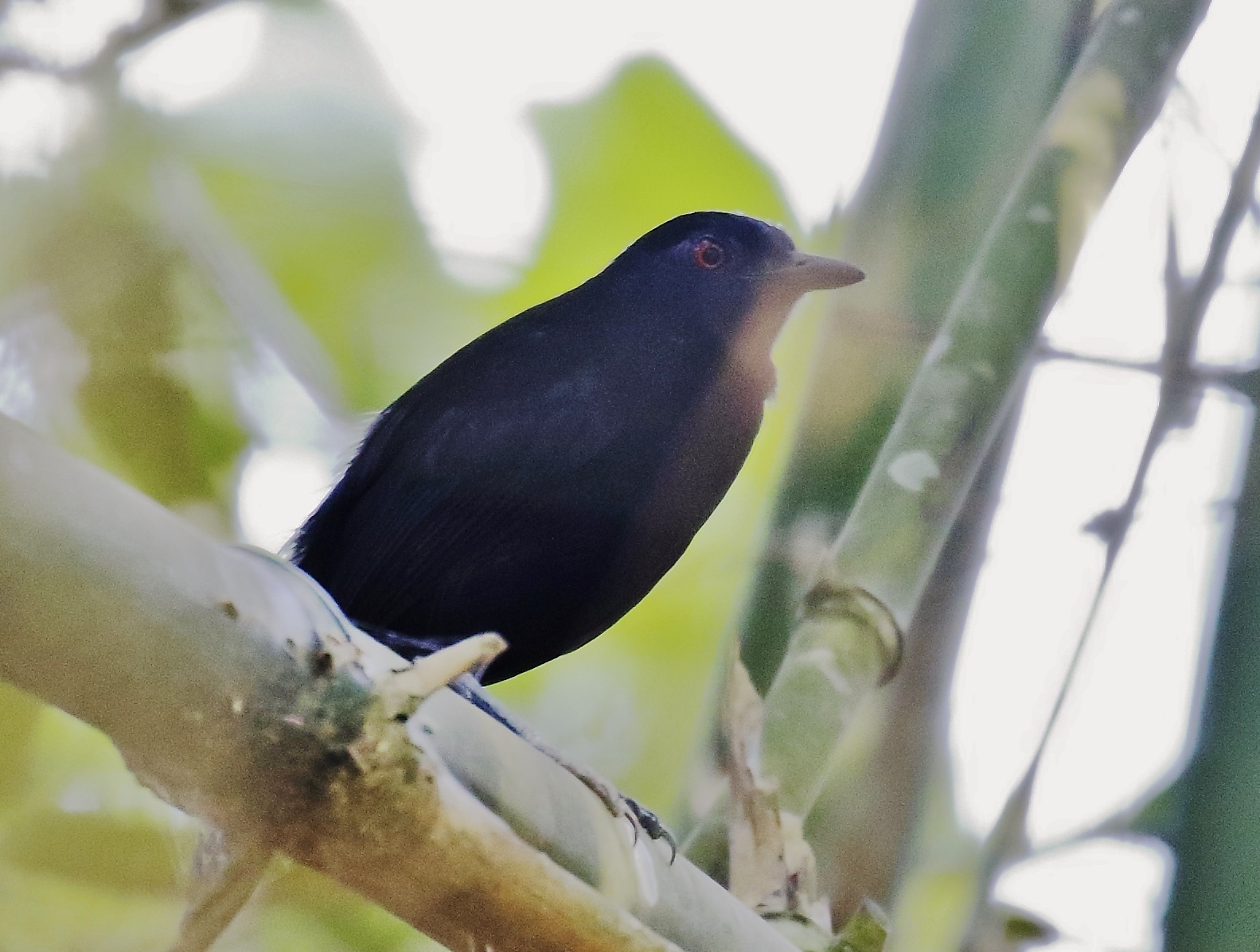 Goeldi's antbird (male) at Rio Branco, Acre, Brazil